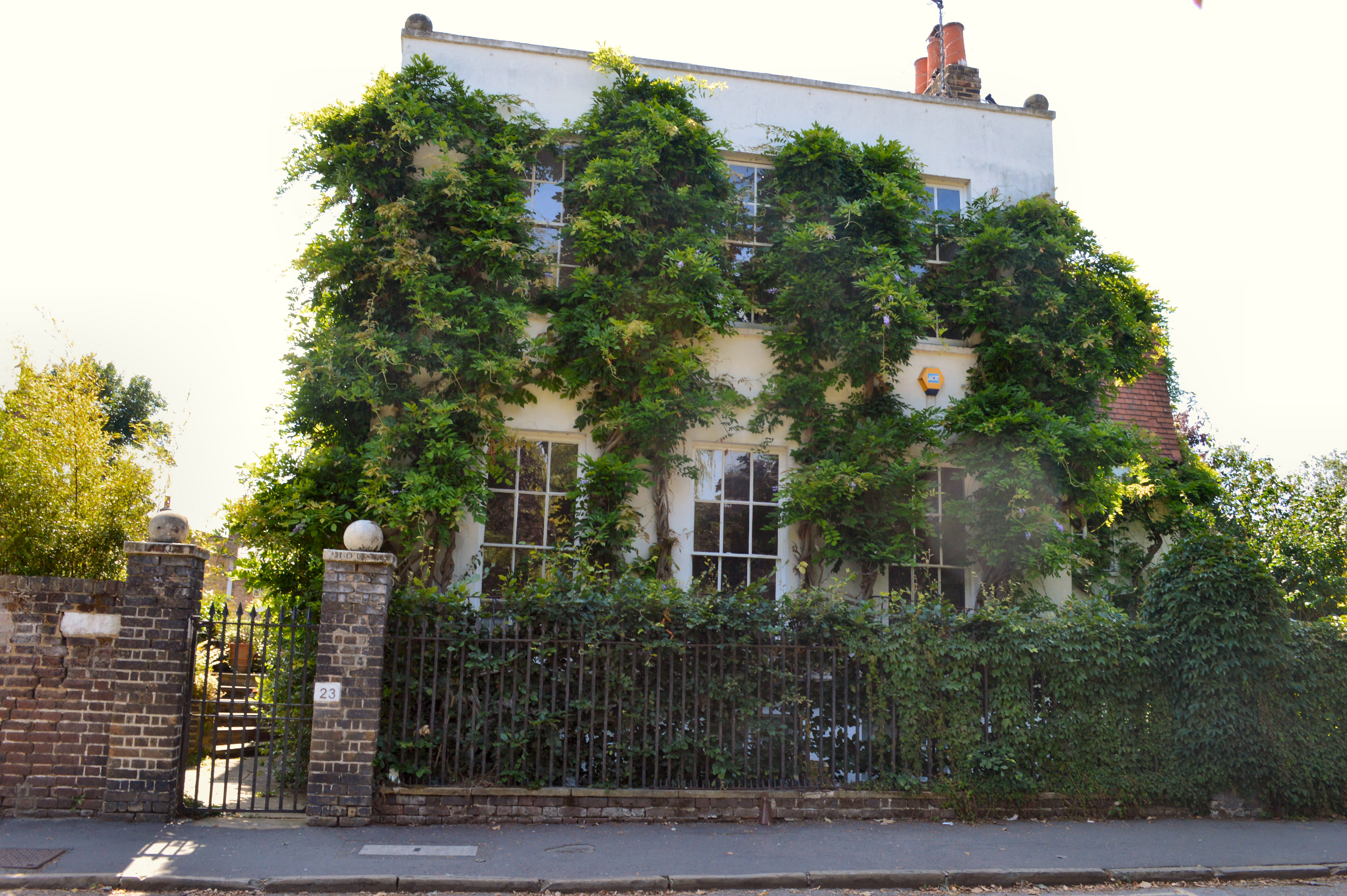 Ham Common, The Little House. Number 28. Originally called Laurel Cottage it was renamed Ivycroft and was the home of Elizabeth Smith and her sister Sarah Smith (who used the pen name Hesba Stretton) from 1891 to her death in 1911. It was later renamed The Little House.